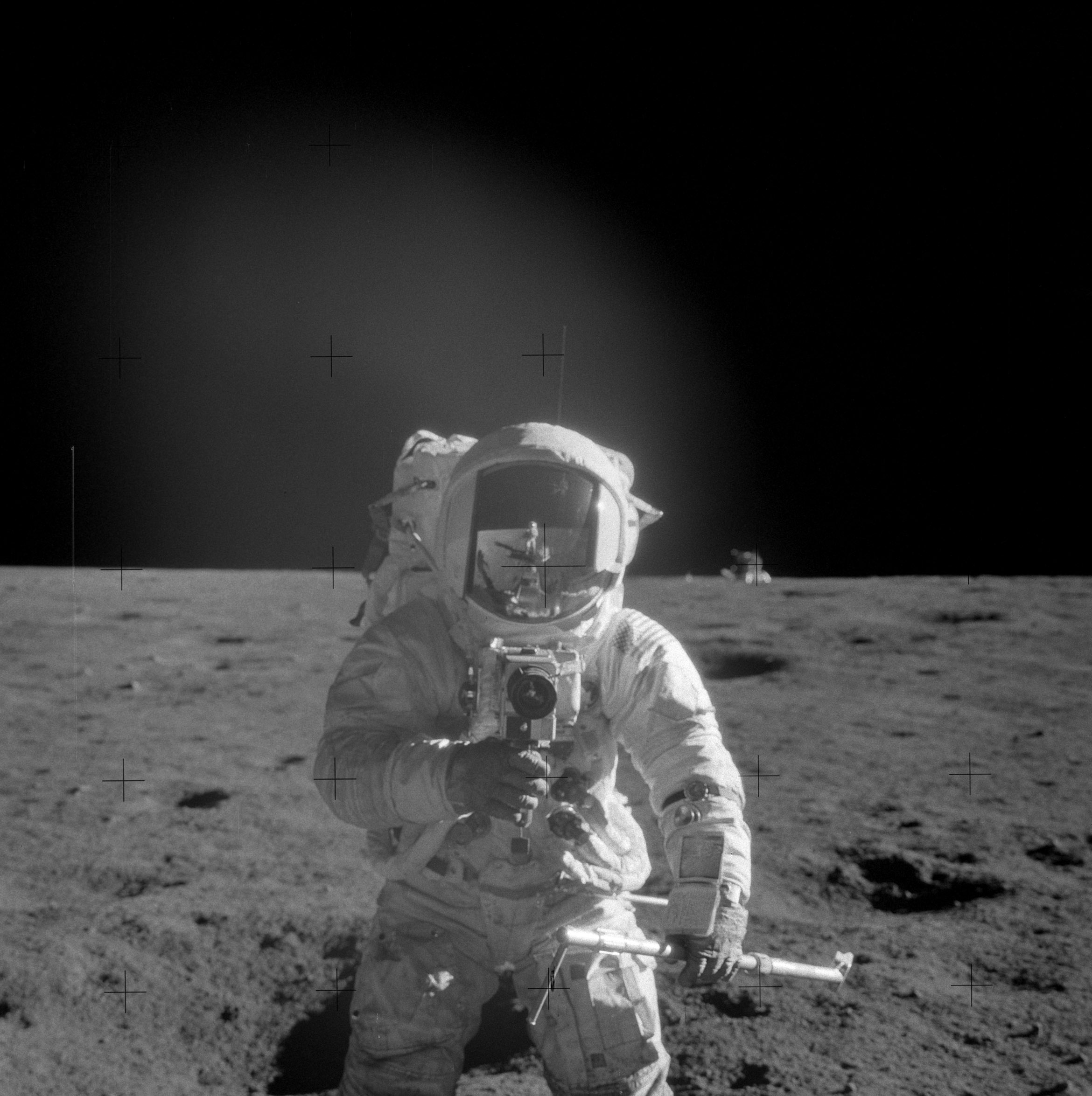 Al's picture of Pete taking Al's picture. Pete is holding the extension handle in his left hand. Note that he has re-attached the scoop. His cuff checklist can be seen on his left wrist and is open to one of the pages on which the backup crew has pasted a picture of a Playboy Playmate. Pete's watch is on his sleeve between his pressure gauge and his elbow. The LM is in the background, over Pete's left shoulder. A labeled detail shows the upper straps holding the Surveyor Parts Bag on the back of Pete's PLSS.